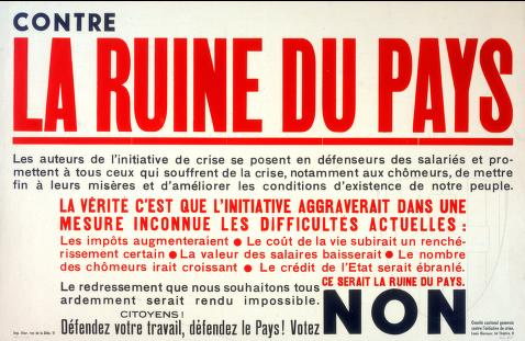 Swiss advertisement for votation regarding economical crisis of 1935